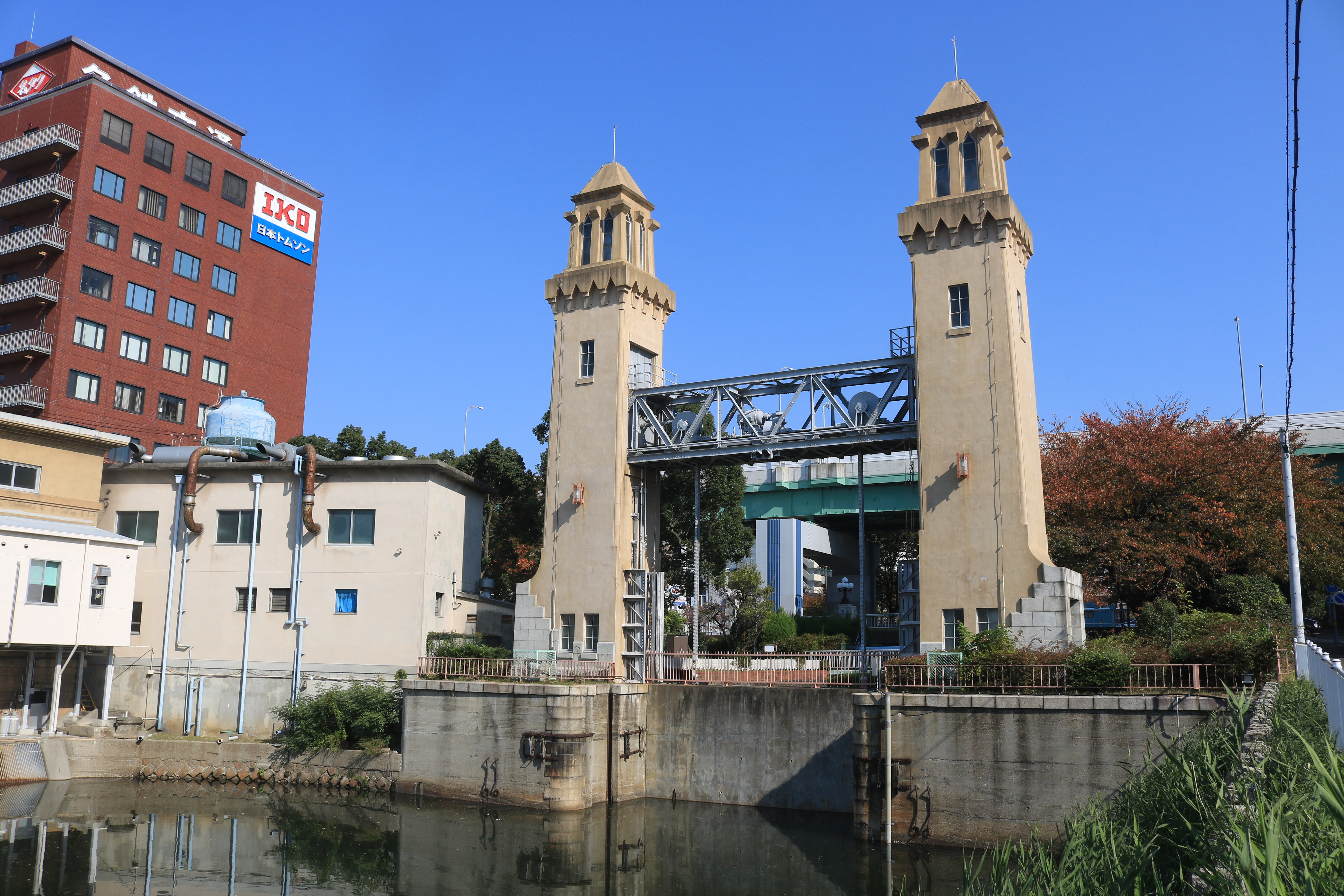 Matsushige Lock Gate and Hori River in Nakagawa-ku, Nagoya, Aichi Prefecture, Japan.